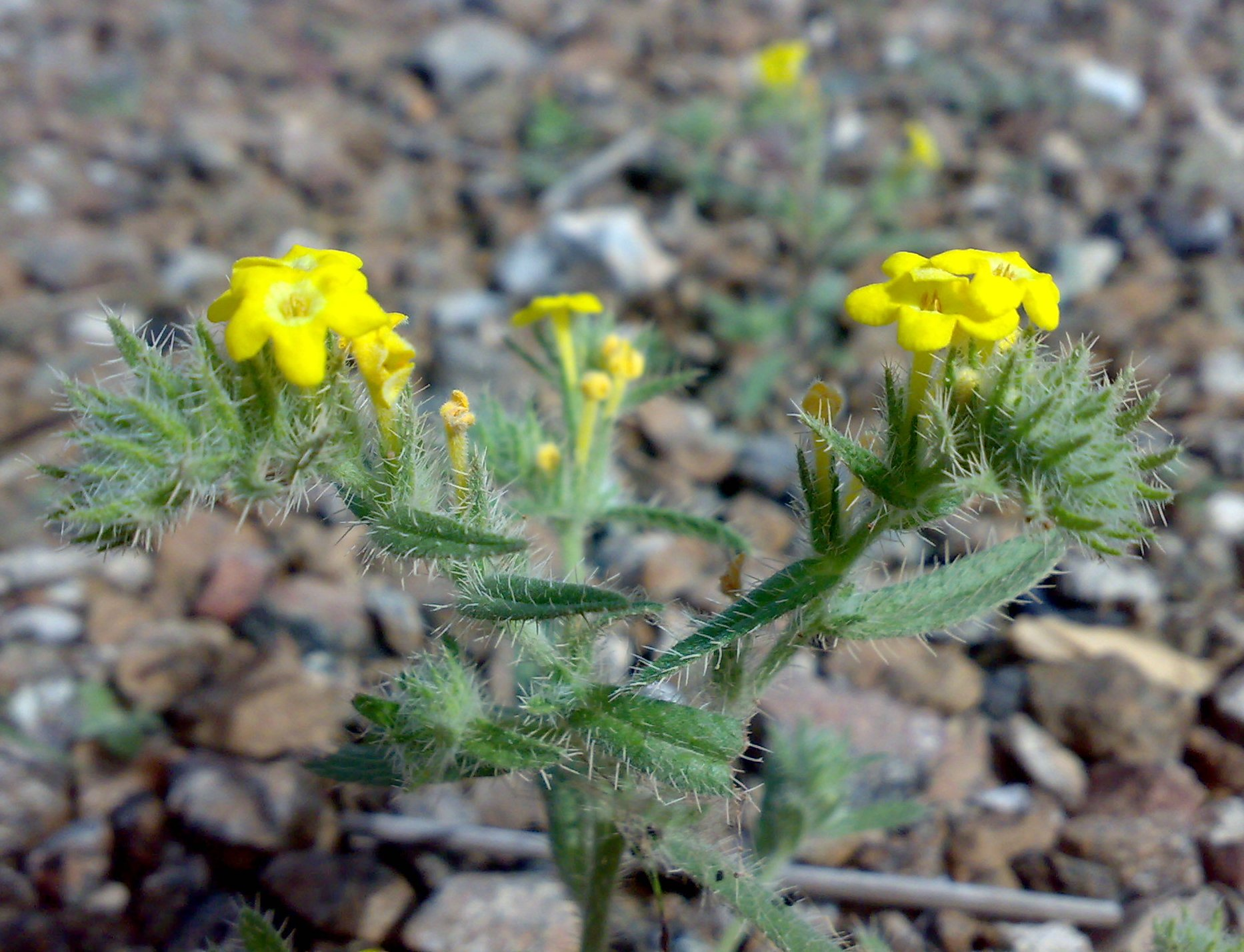 Arnebia hispidissima in the semi-desert north of Fujeirah City, Indian Ocean coast, United Arab Emirates.